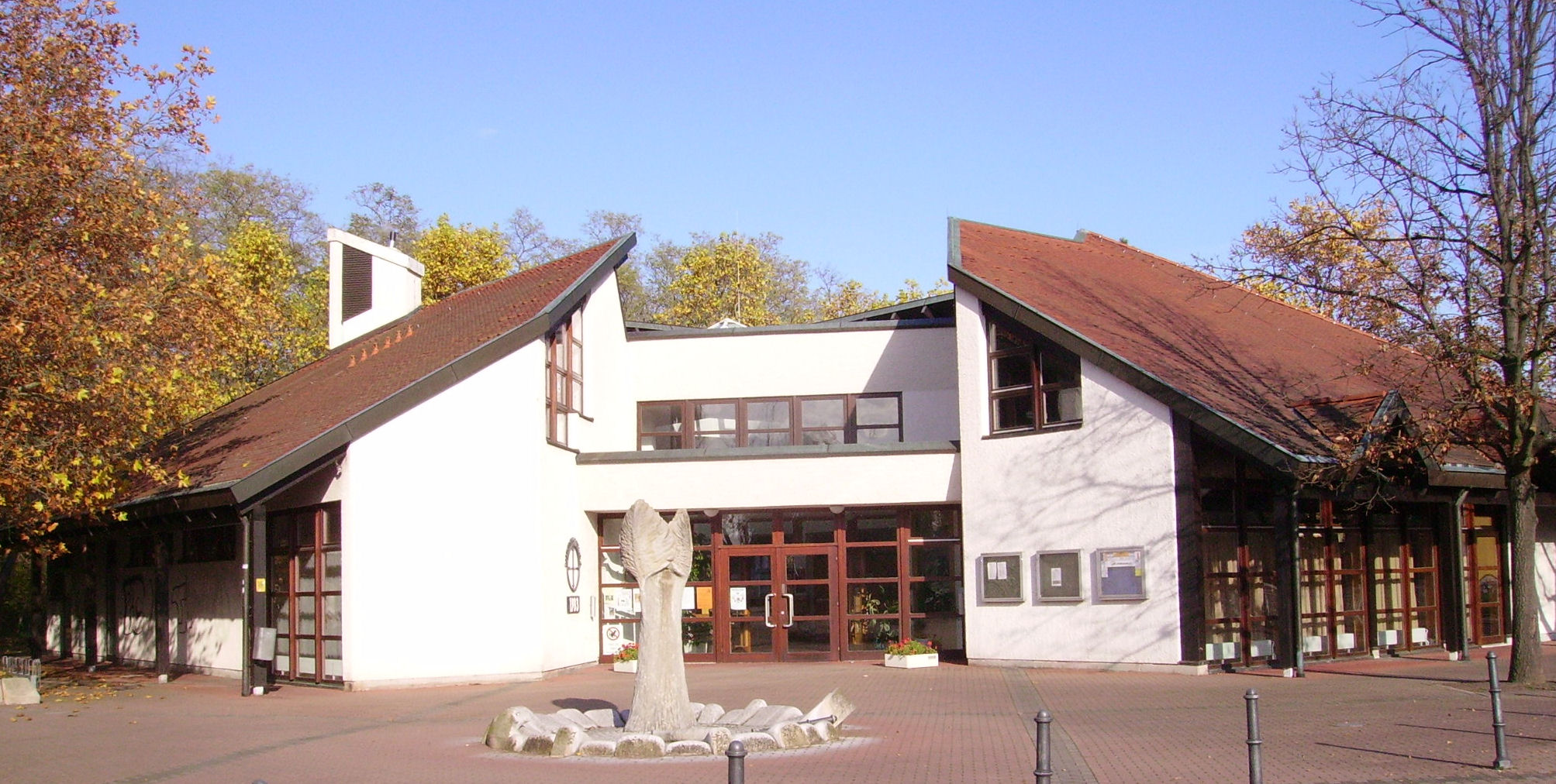 Birkenheide in Rhineland-Palatinate, Germany